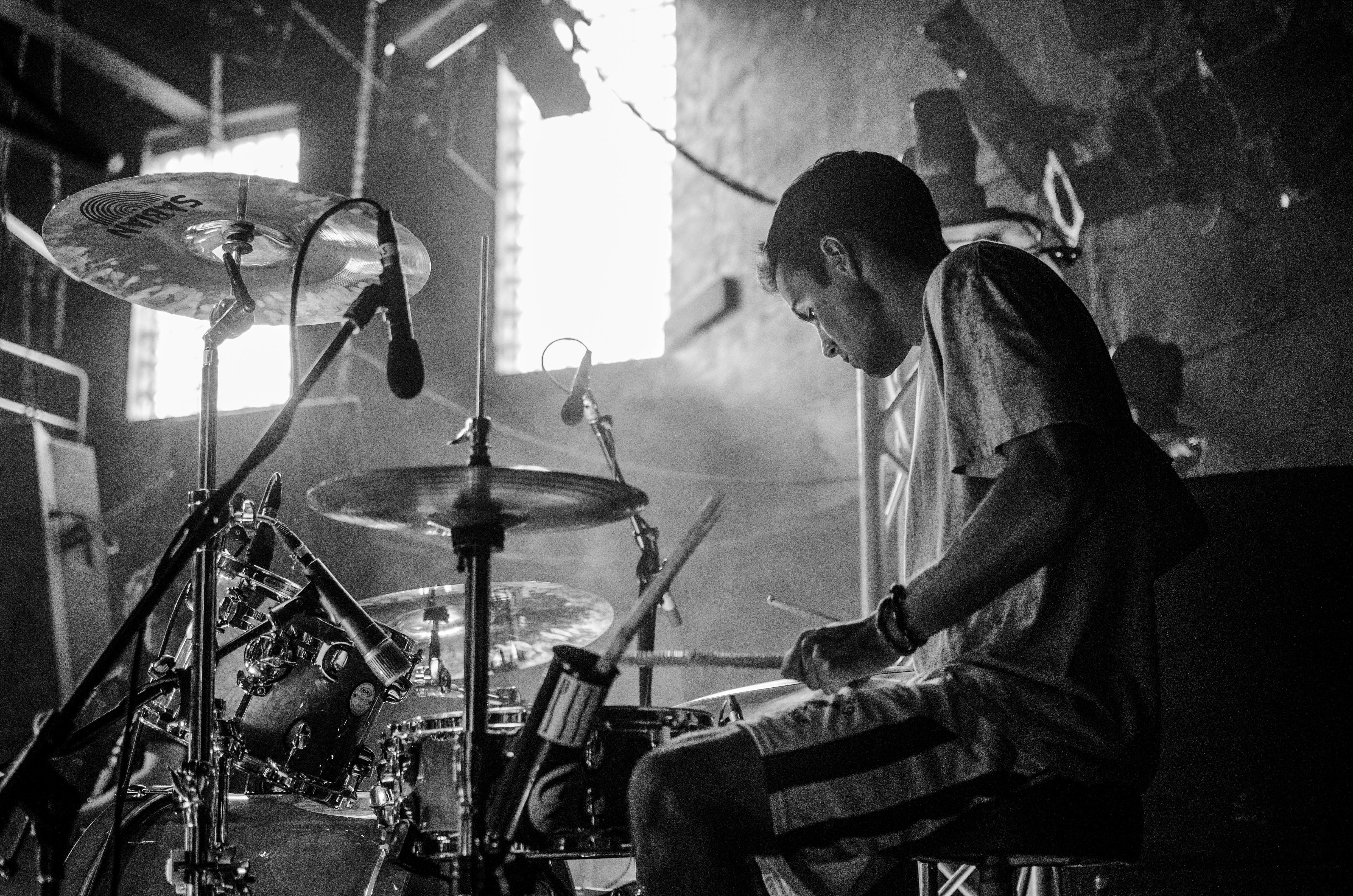 Jake Watson of Silver Creek Attractions at Water Street Music Hall on August 30, 2014